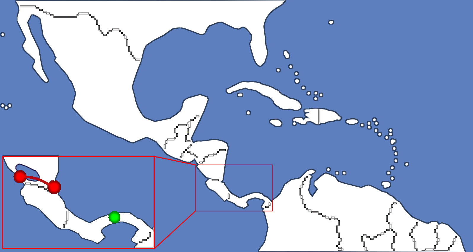 Panama and Nicaragua Canals